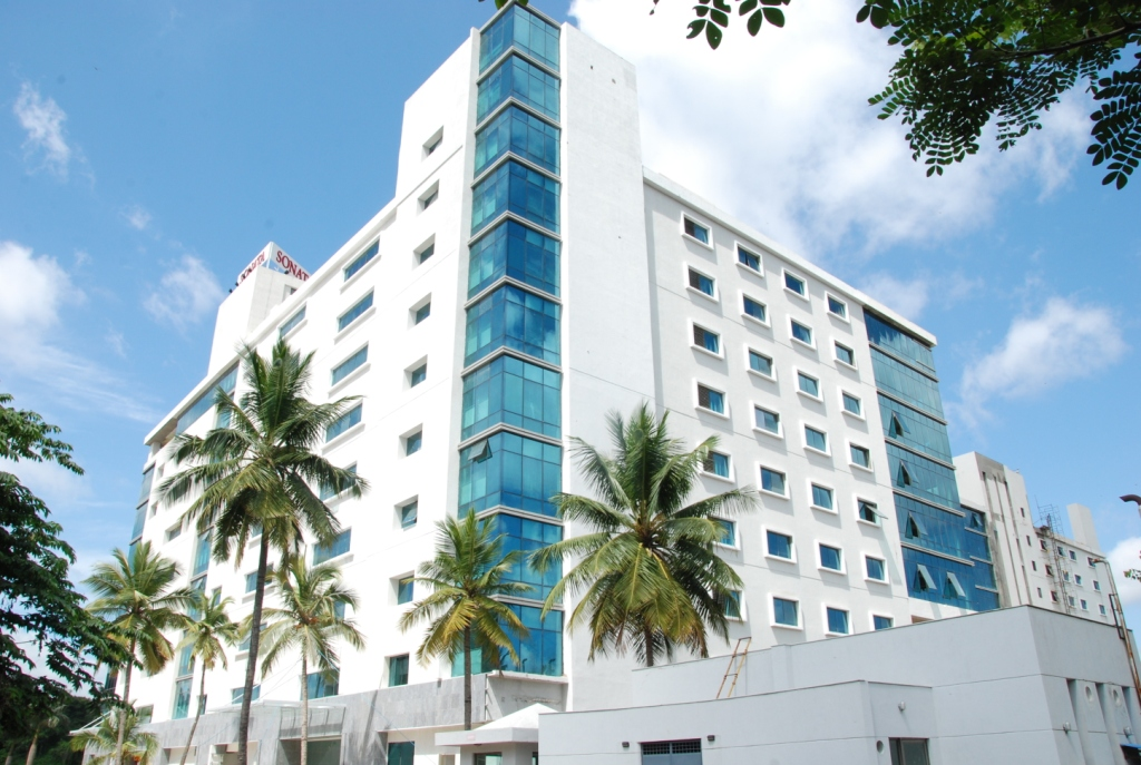 Global Development Center at Global Village, Bangalore